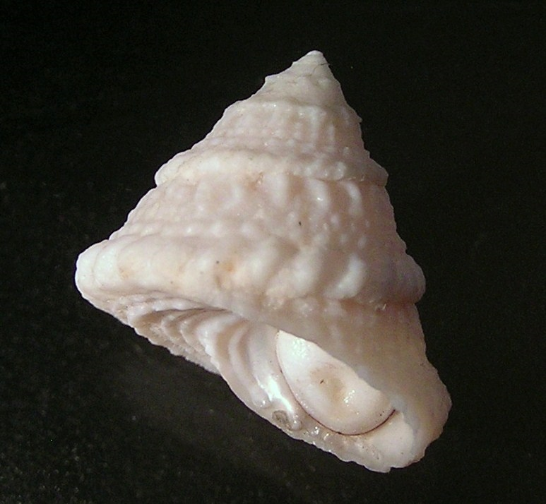 Lithopoma americanum (Gmelin, 1791) , a turban snail from the family Turbinidae; Florida Keys